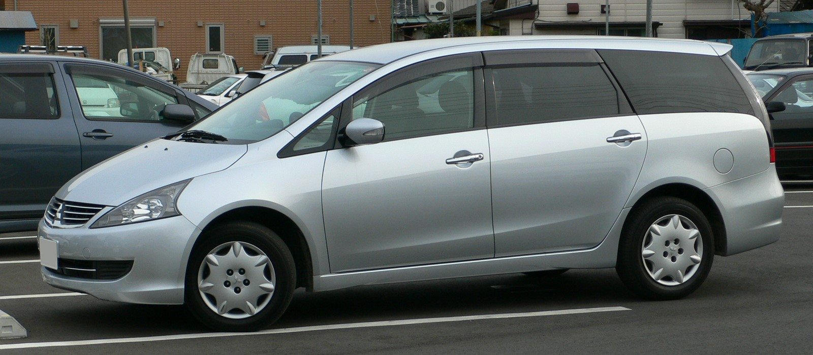 Mitsubishi Grandis (2005)